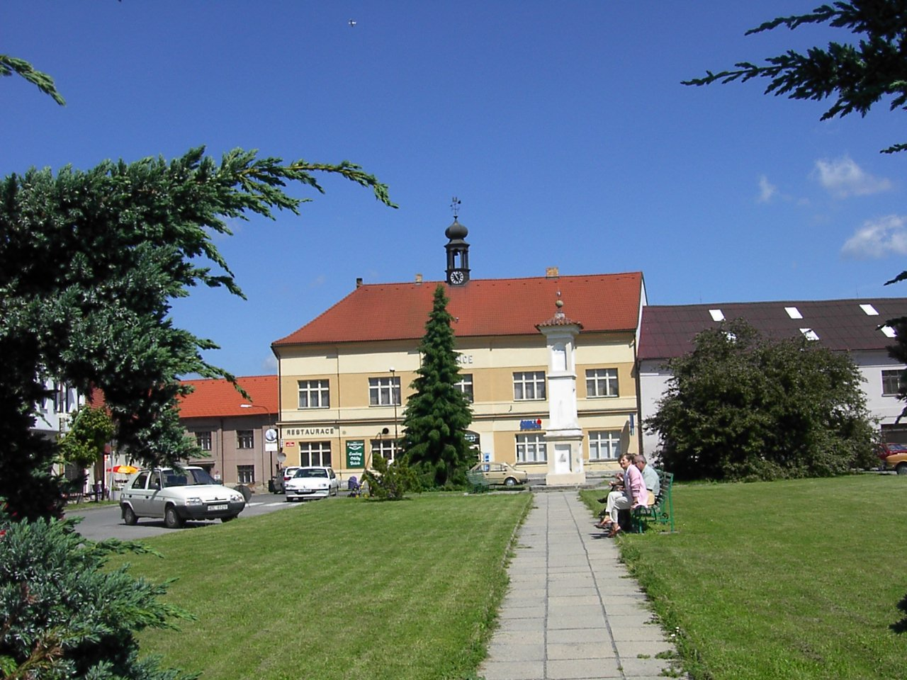 Townhall in Neveklov.